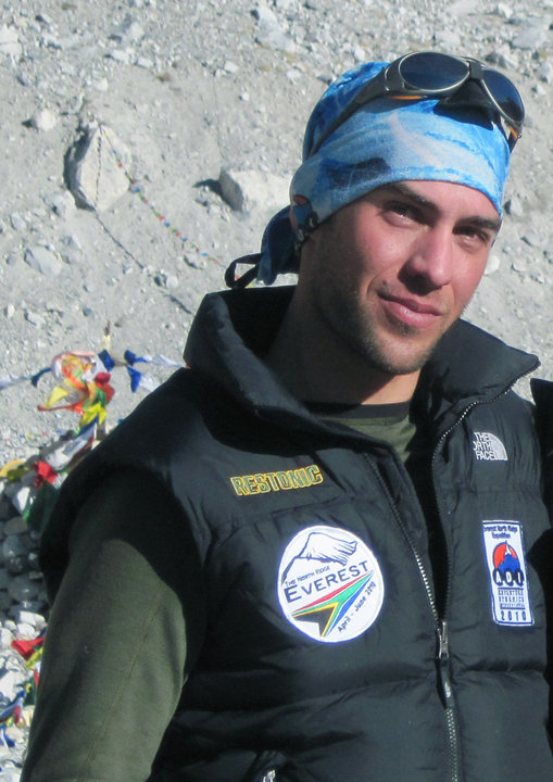 Picture of Lance Metz